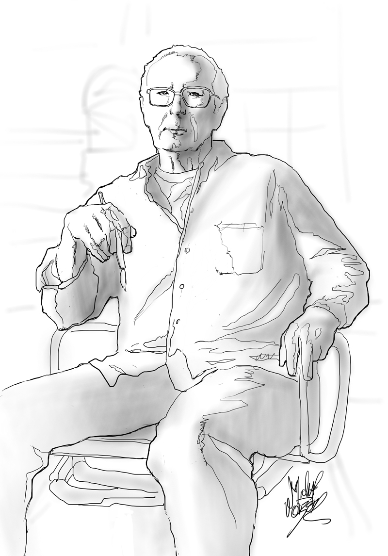 Portrait of Gus Heinze, American photorealist painter by Michael Netzer.